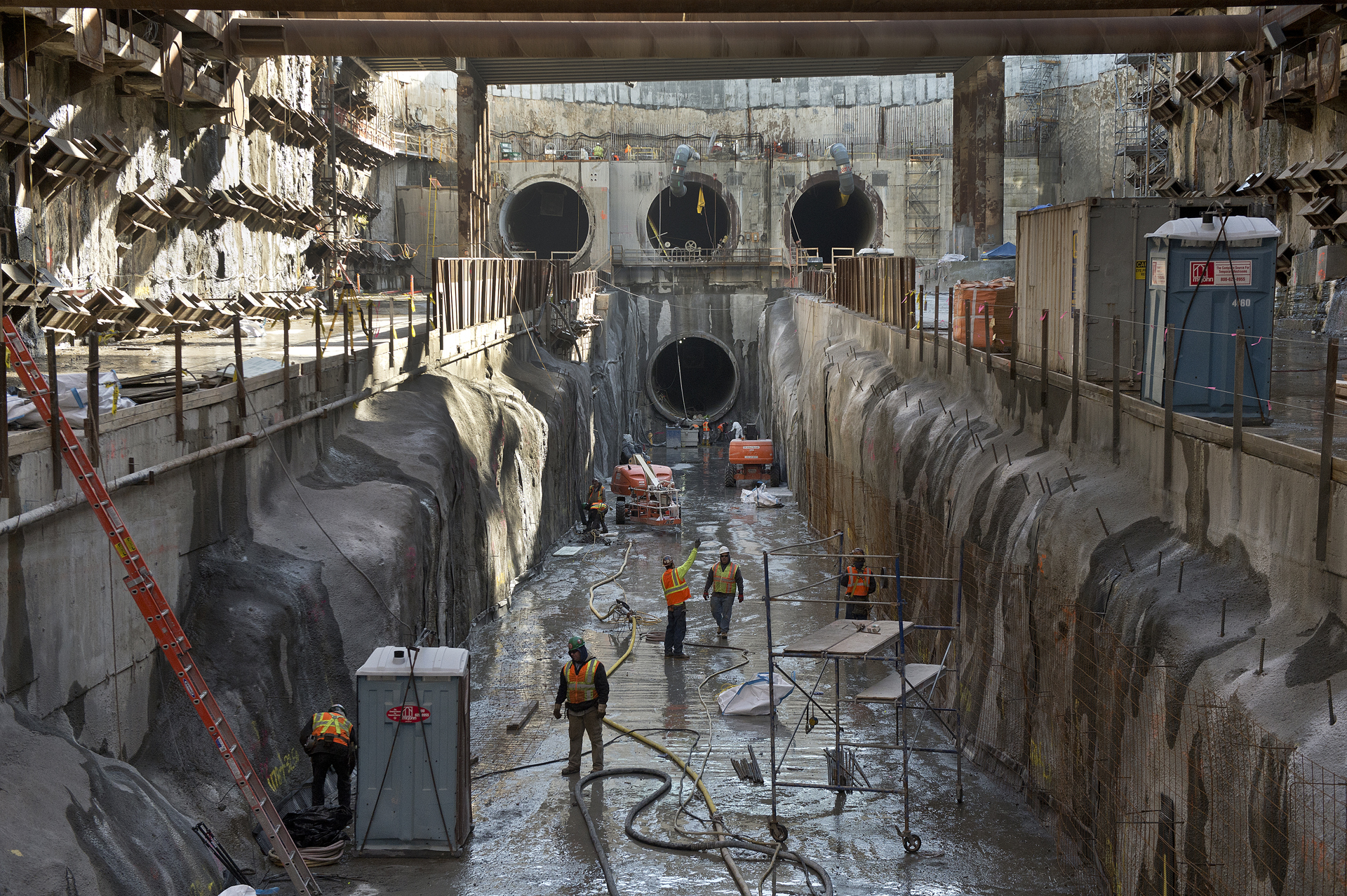 The progress of the East Side Access construction in Long Island City, Queens, as of December 20, 2012. This photo, looking east from underneath Northern Boulevard, shows what will be a track bed leading toward four newly excavated tunnels underneath Sunnyside Yard. The tunnels will connect Grand Central Terminal to the LIRR Main Line and to Sunnyside Yard. Photo: Metropolitan Transportation Authority / Patrick Cashin.